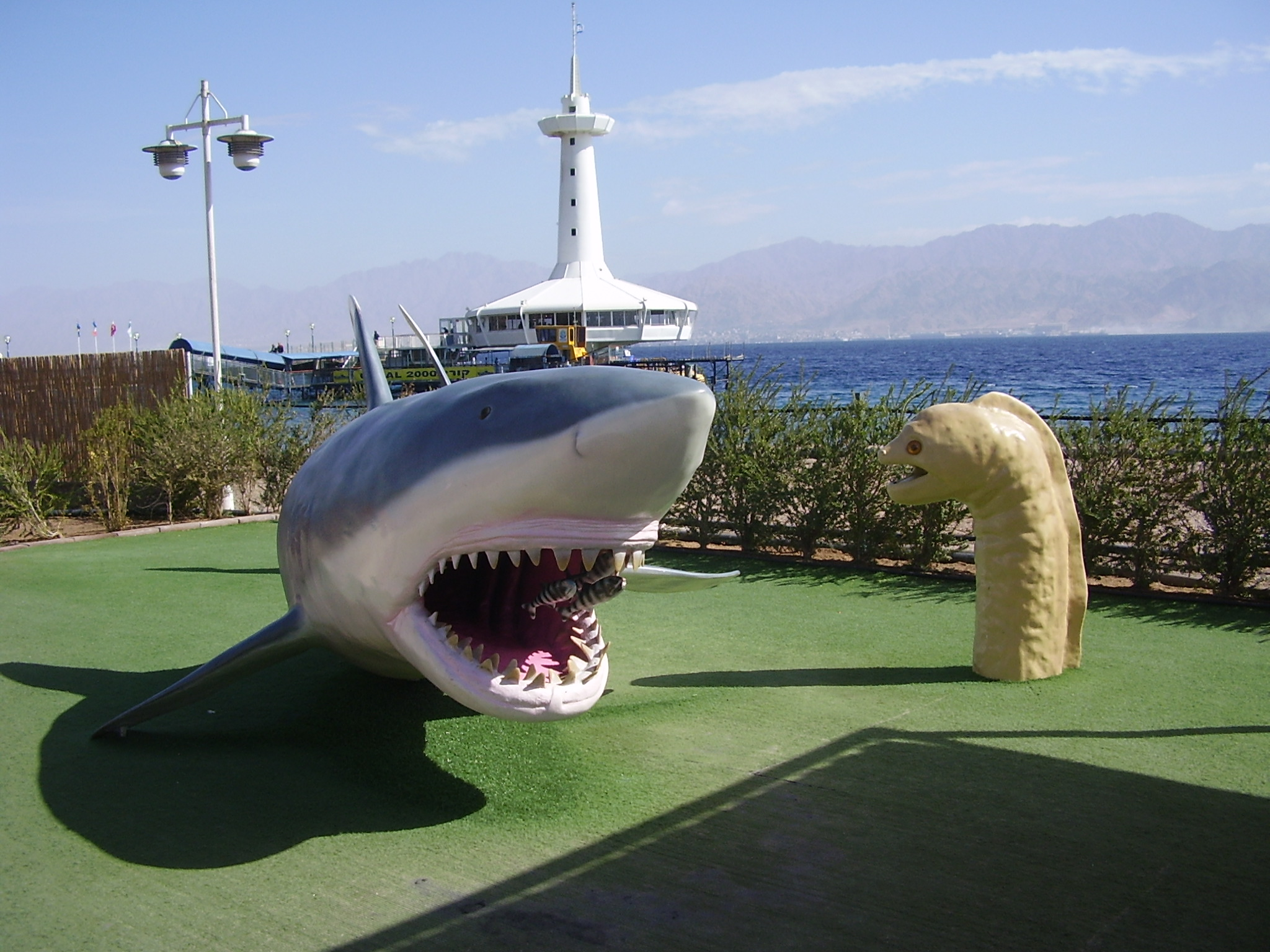 Underwater Observatory in Eilat